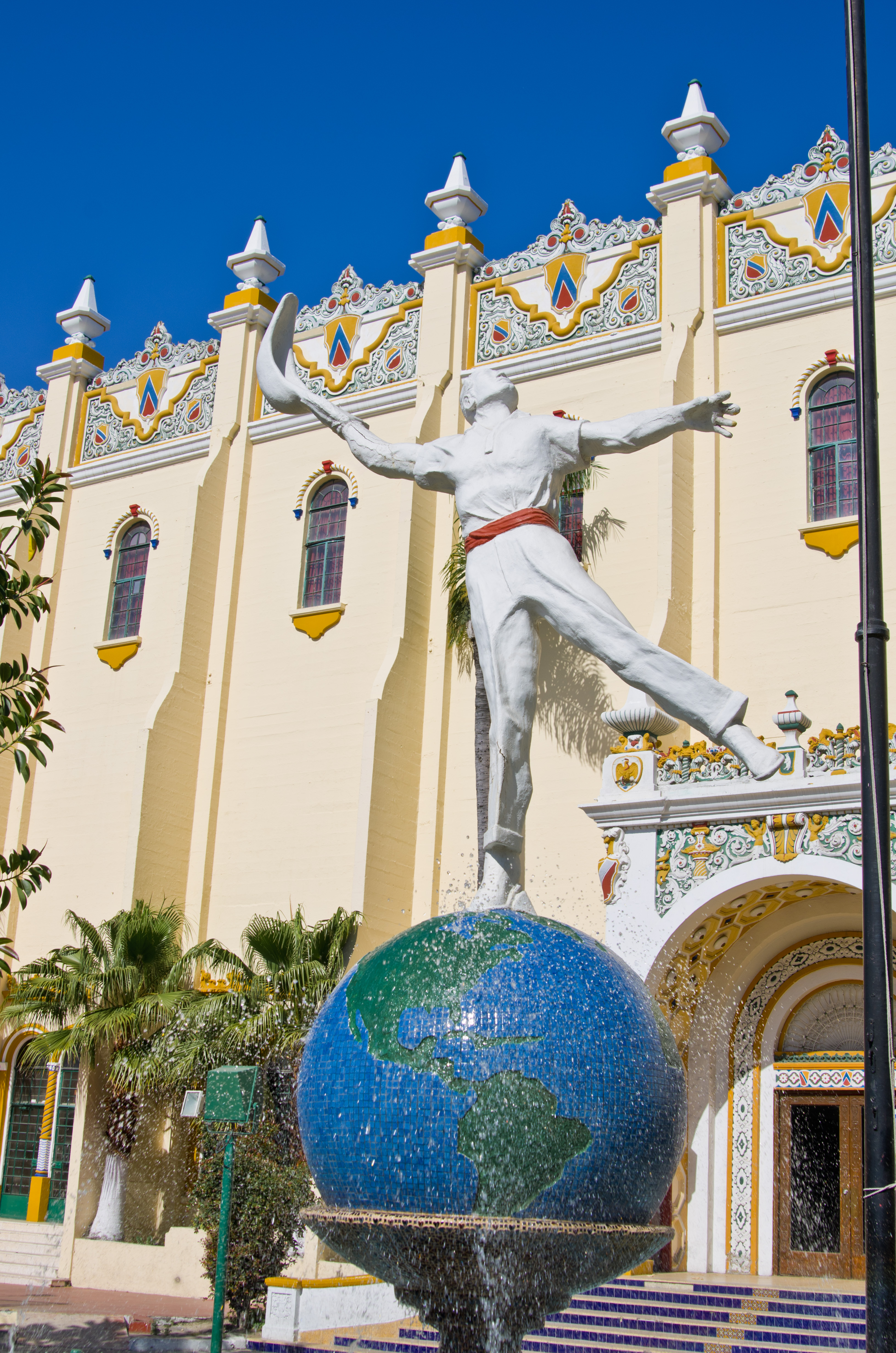 Jai Alai Fronton Palacios in Tijuana